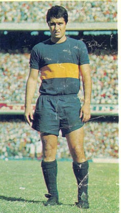 Boca Juniors player Angel Clemente Rojas.